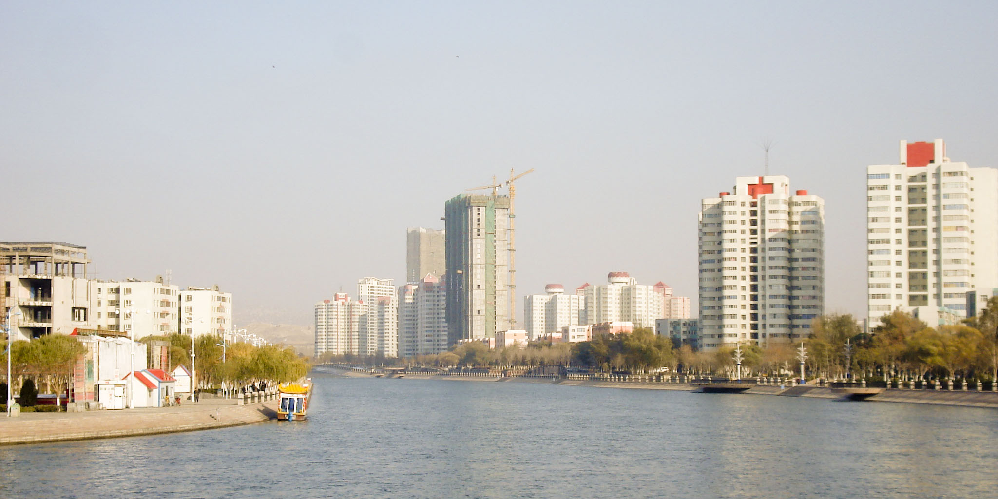 Peacock river in Kuerle Kongque He, Peacock river, in Kuerle of Xinjiang, 10th December, 2006. Author Hsu